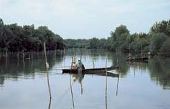 River Suhovica Hungary